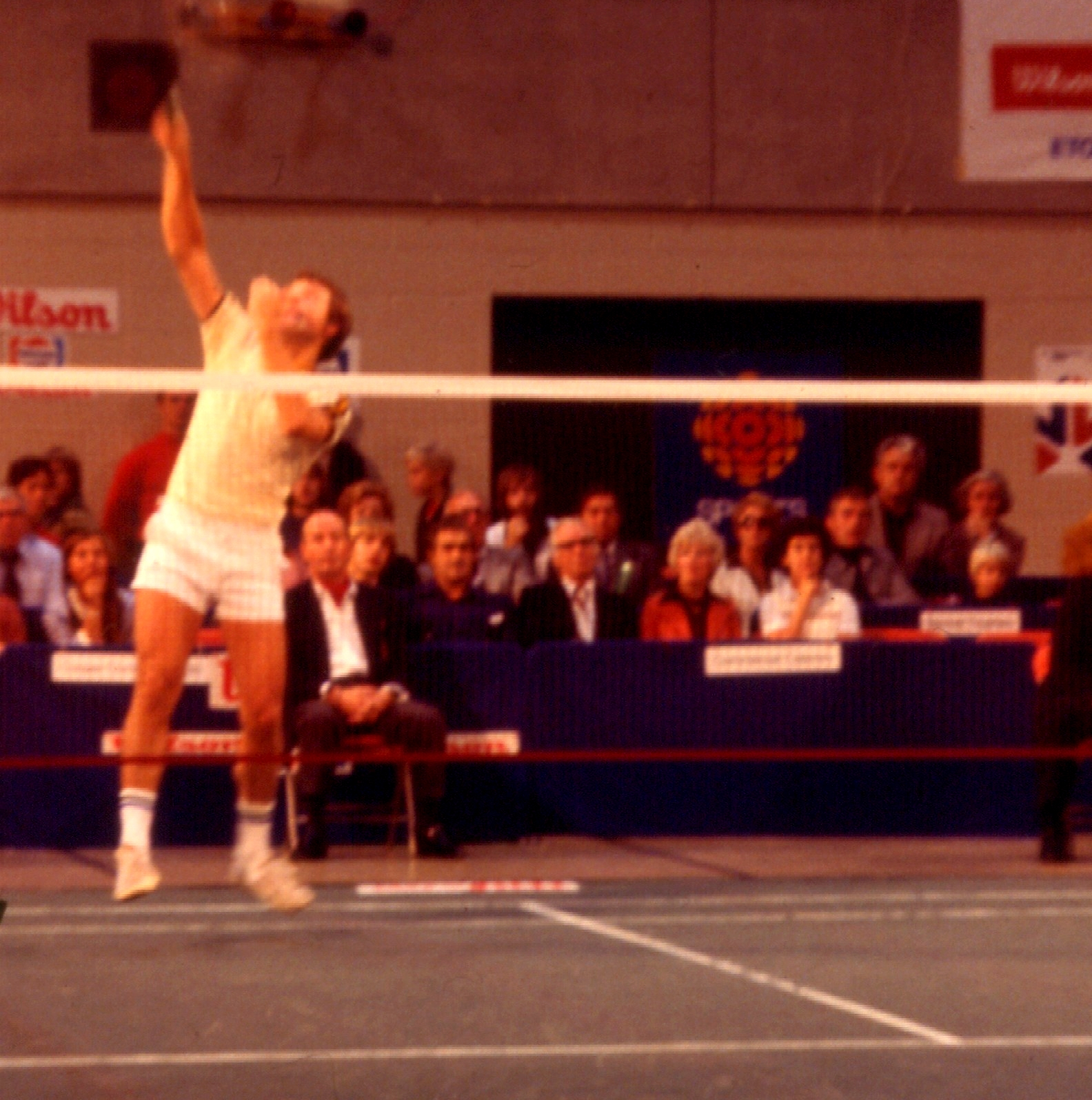 Men's singles at the Canadian Open 1977 in Badminton at Etobicoke Olympium with Flemming Delfs.